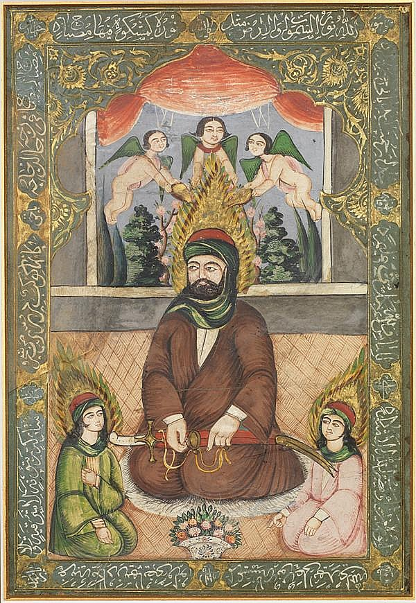 CHAMAYEL early 19th century Qajar iran miniature representing Imam Ali and his children